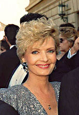 Florence Henderson at 1989 emmy Awards